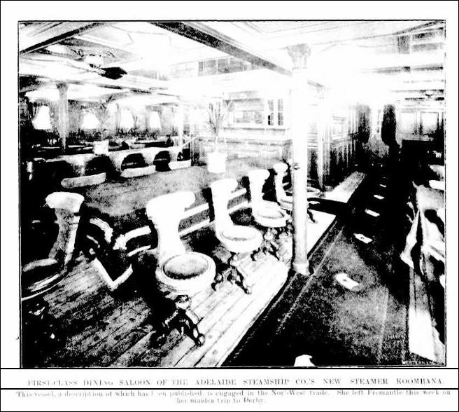 The first class dining saloon of the SS Koombana.